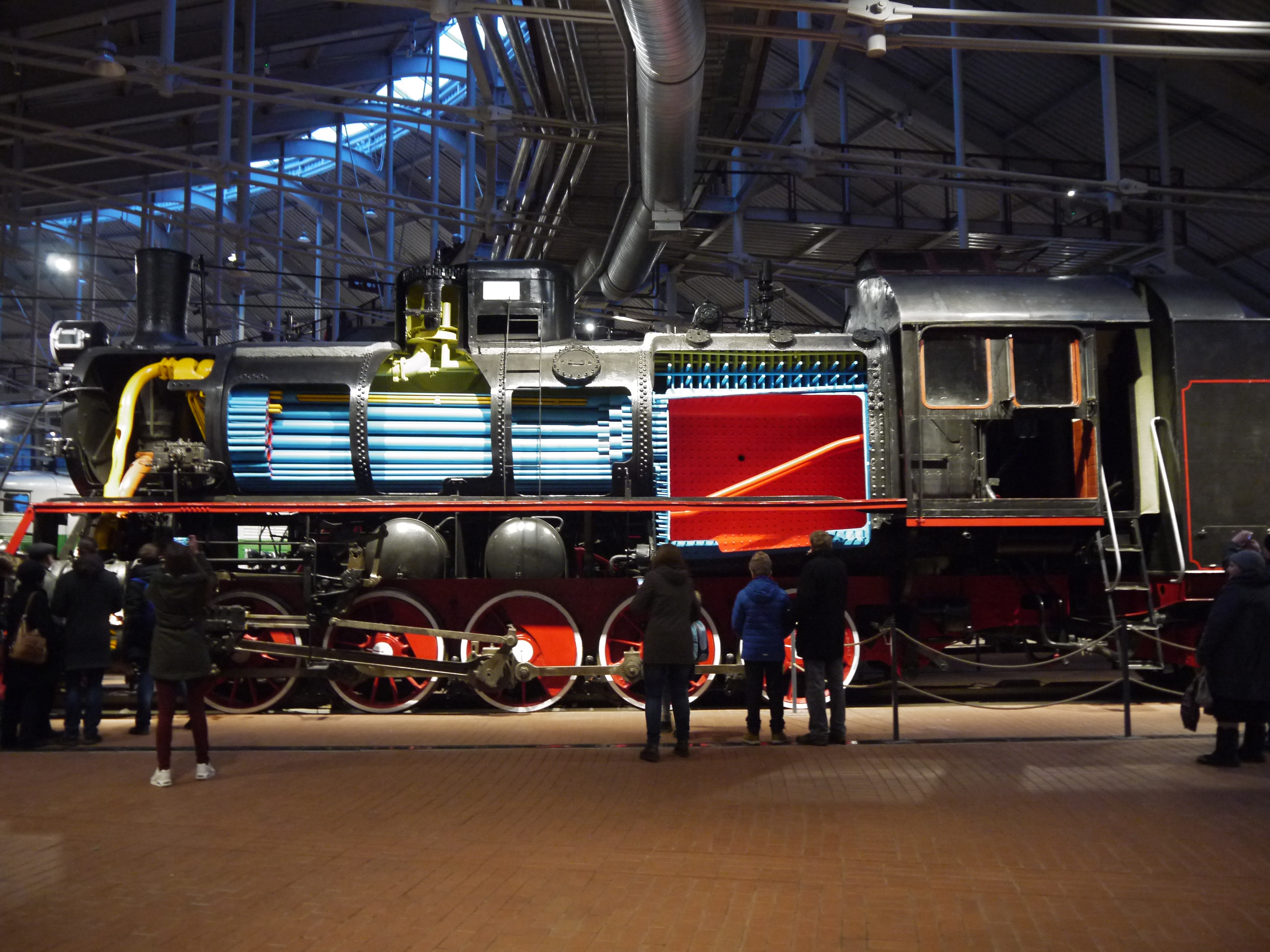 cutaway locomotive Er 791-81, Russian Railway Museum, adjacent Baltiysky Railway station, Saint Petersburg